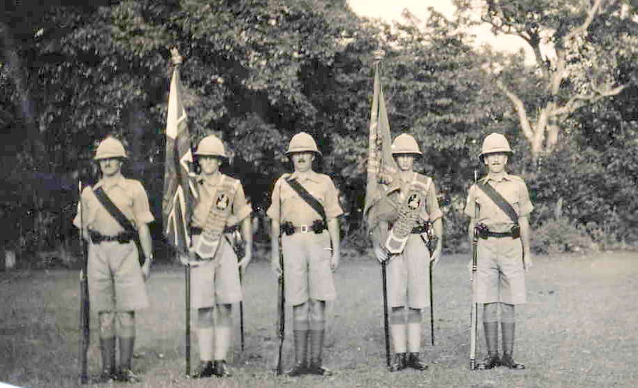 Original caption: 1933. Colour Party 1st Bn Royal Norfolk Regiment.